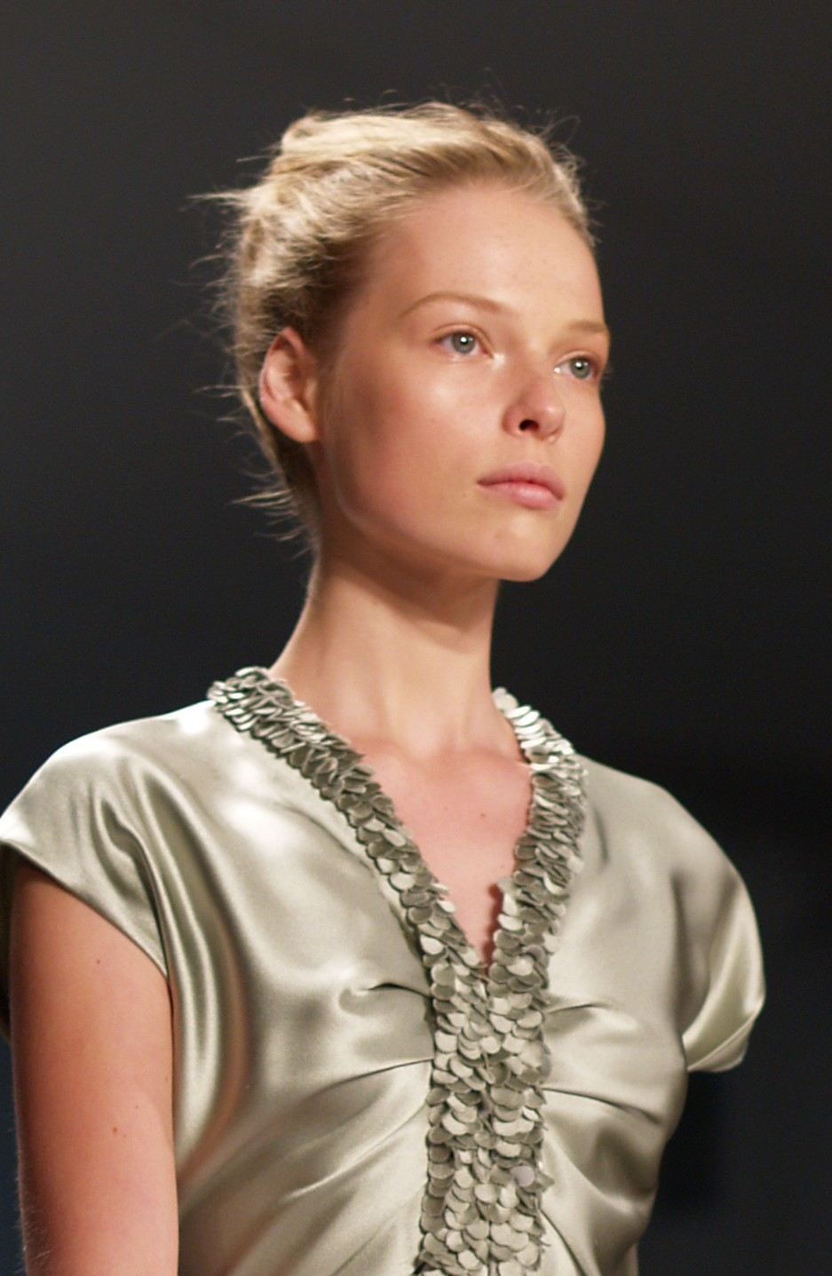 Polina Kouklina modeling in Doo.Ri Spring 2007 show, New York Fashion Week